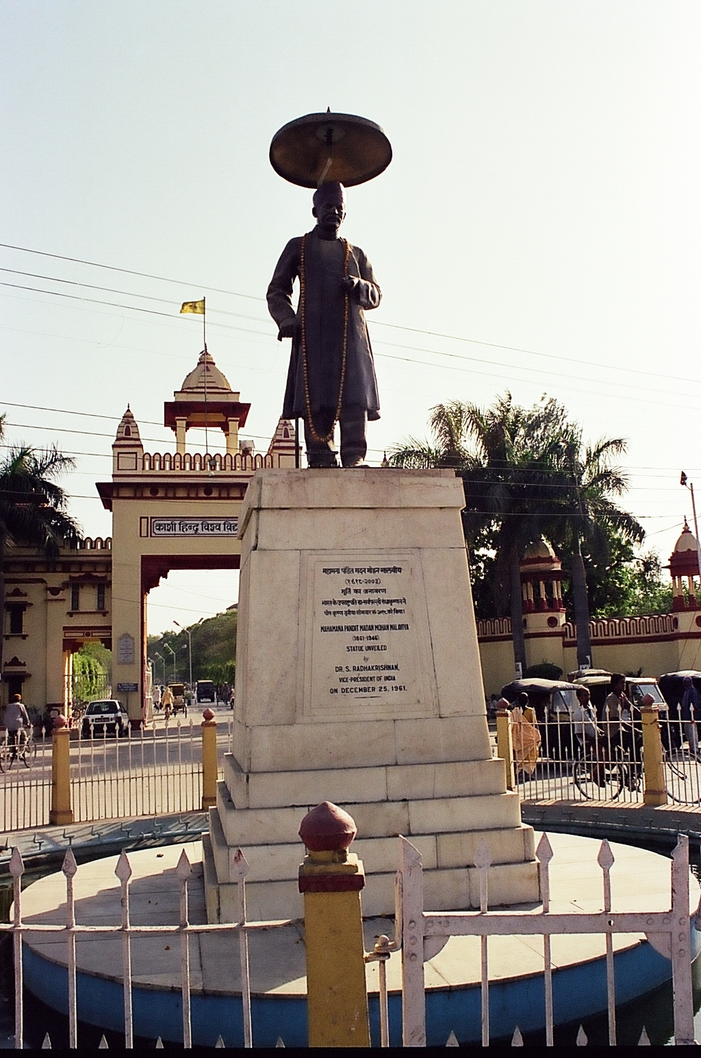 Statue of Pandit Madan Mohan Malaviya, the founder of BHU at main entrance gate of BHU.